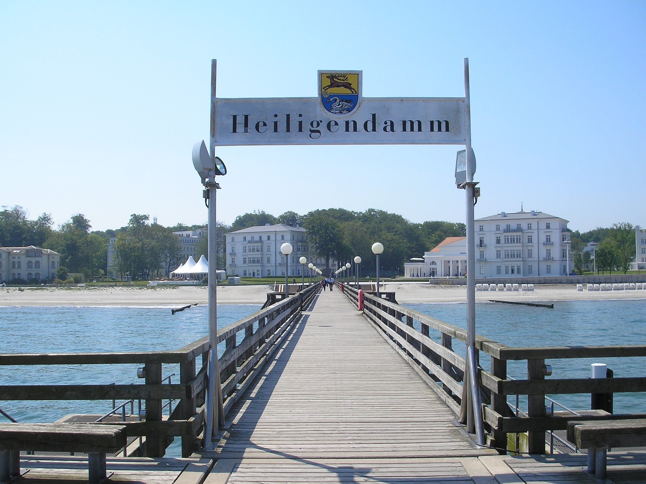 Image from the Seebrücke (pier) towards Heiligendamm spa.